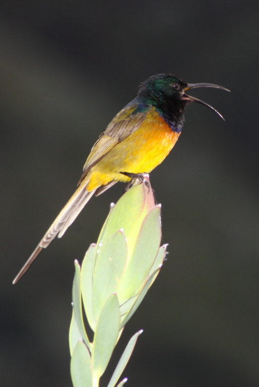 Orange breasted sunbird, singing